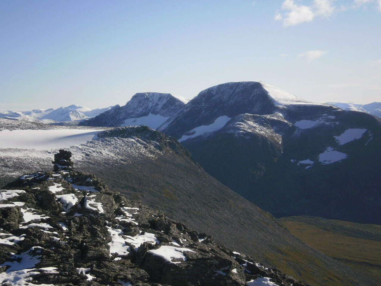 Mountains in Norway